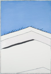 "Dwa prawdziwe kolory 23 VIII 2002" - work by Stanisław Fijałkowski, from the permanent collection of Zachęta National Gallery of Art (Warsaw, Poland)